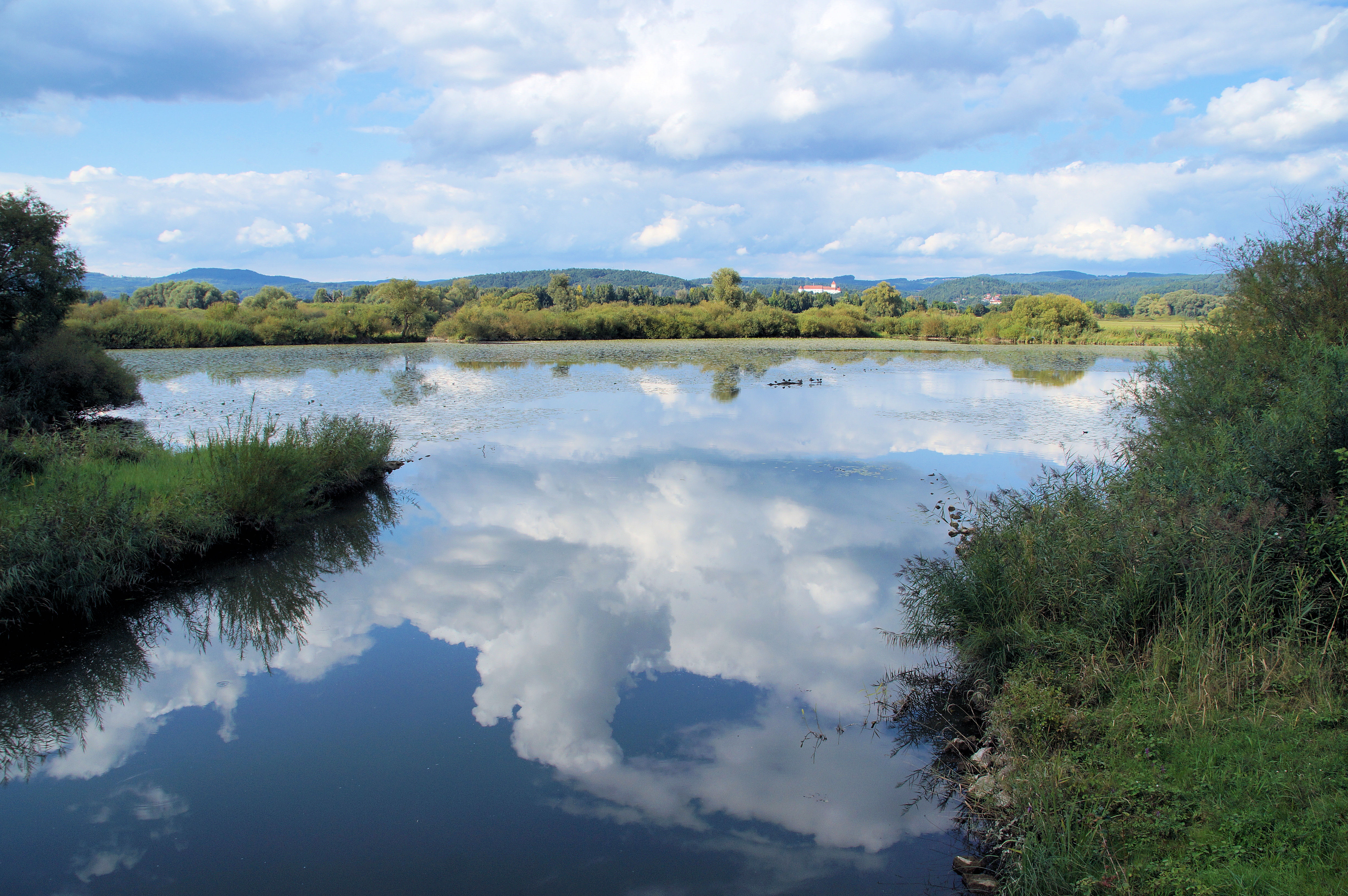 Nature reserve "Pfatterer Au", NSG-00411.01, WDPA: 163267, old fork of the Danube near Pfatter with meadows and woods.